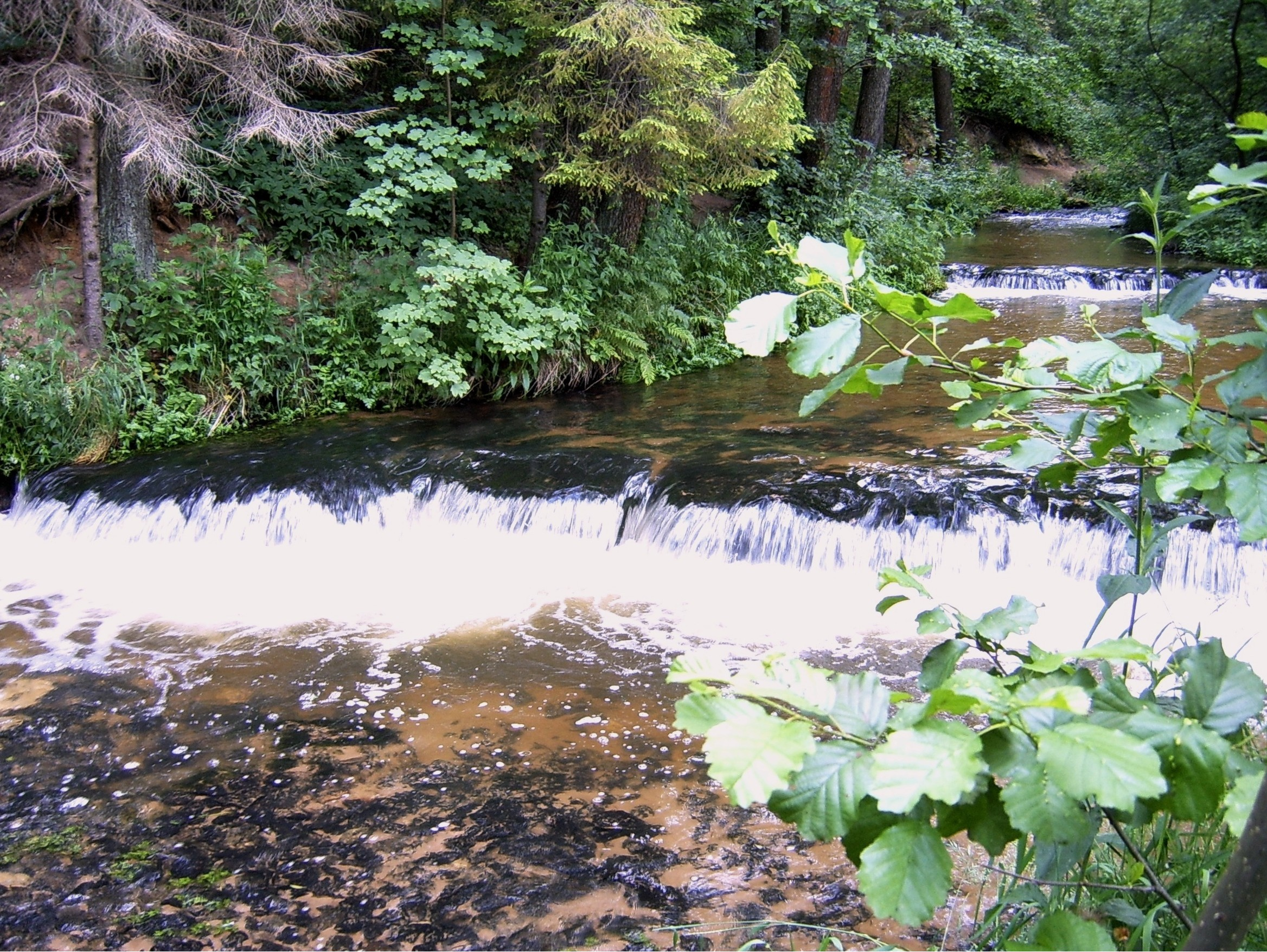 River Tanew in Roztocze region, Poland (Nature reserve "Nad Tanwią")